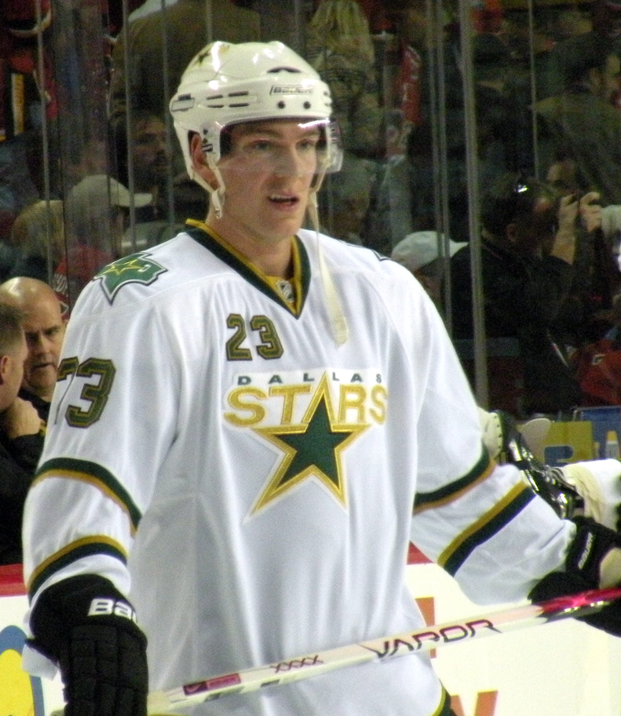 Dallas Stars forward Tom Wandell prior to a National Hockey League game against the Calgary Flames, in Calgary.